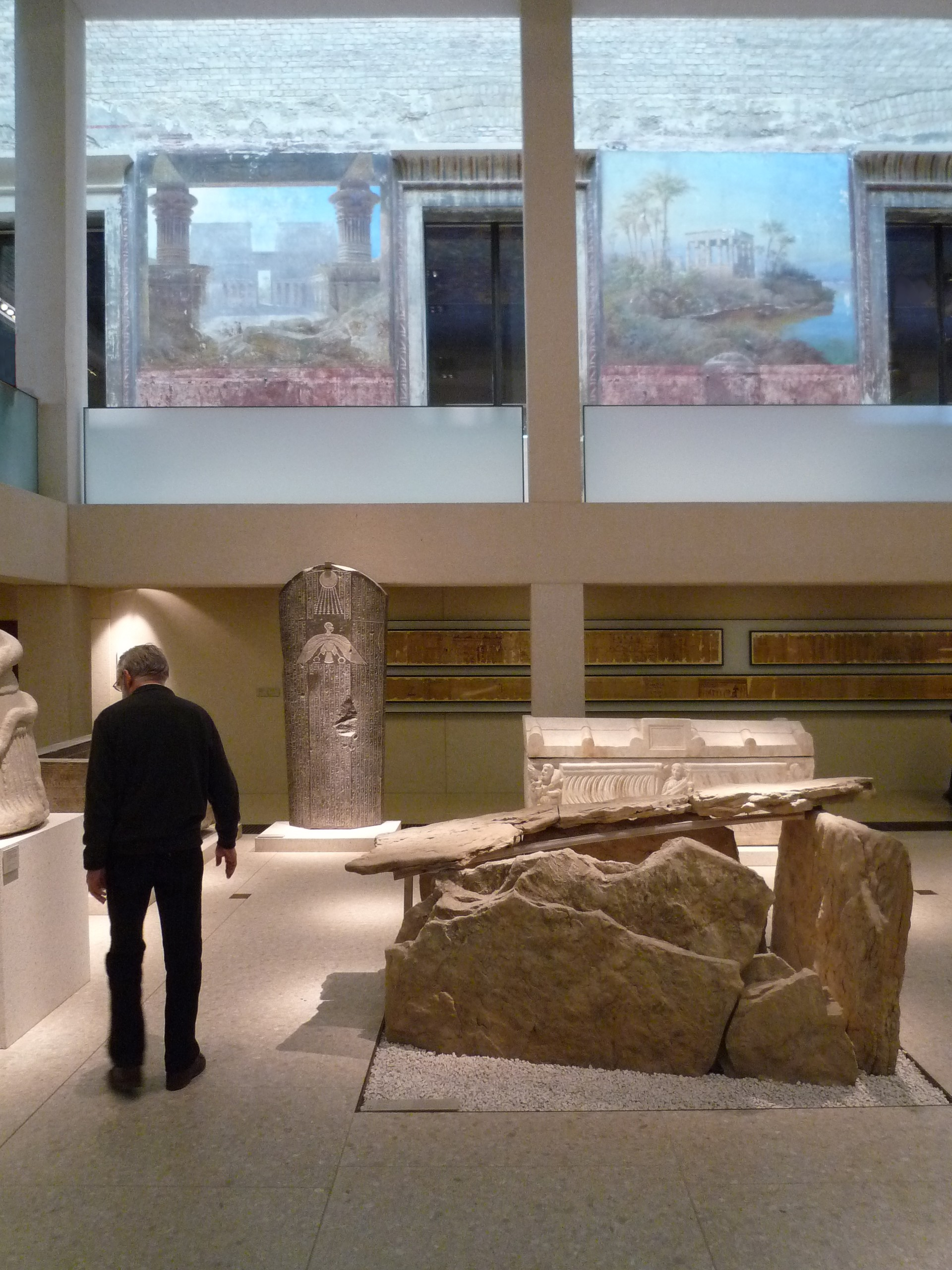 Neues Museum in Berlin-Mitte. "Ägyptischer Hof" (Egyptian court-yard), partial view.